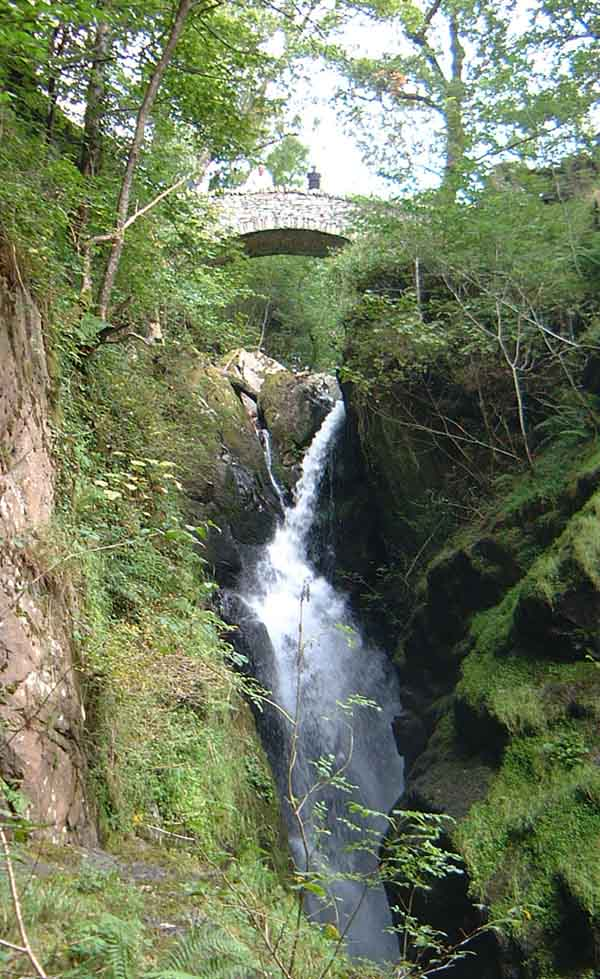 Personal Photograph taken by Mick Knapton on 19th September 2002